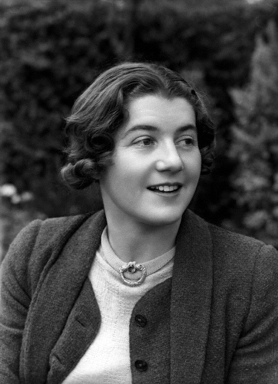 English tennis player Peggy Scriven by Bassano, half-plate film negative, 29 April 1938